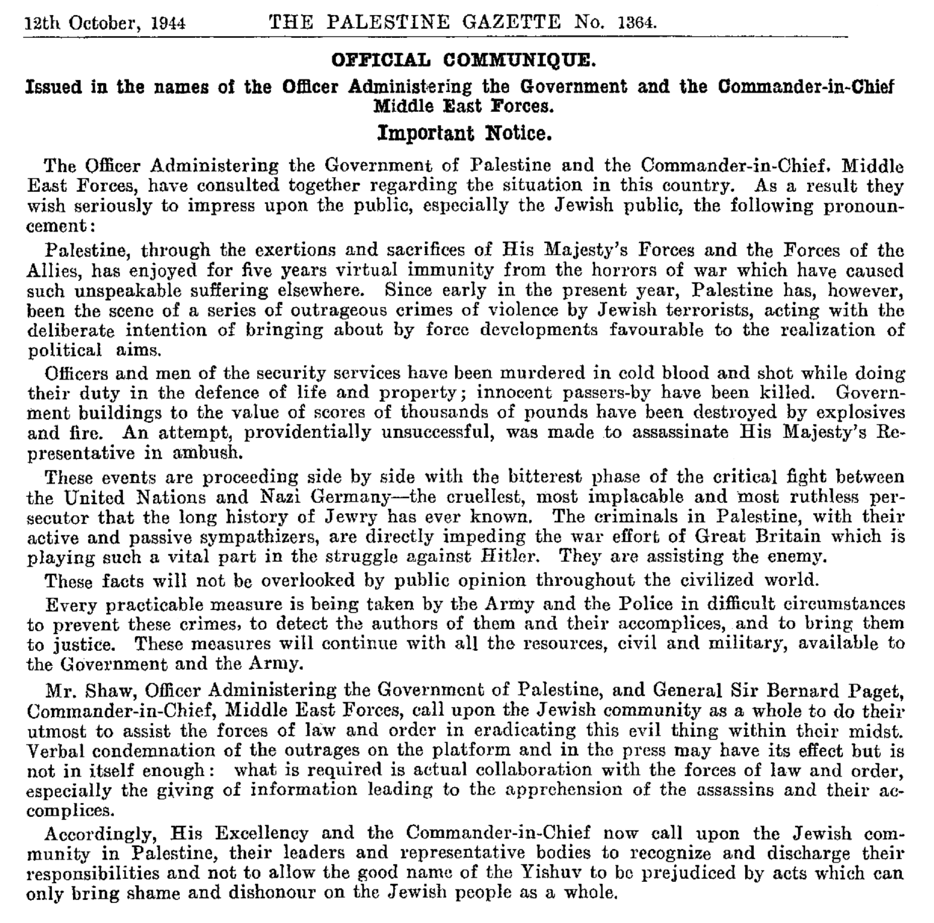 The Irgun and Lehi armed underground groups attacked British military and government targets in Palestine during 1944. This communique charges that they were impeding Britain's war against the worst enemy the Jews had ever known.